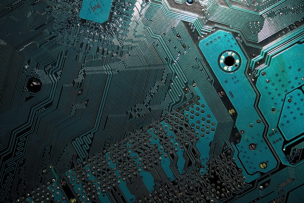 Near view of a motherboard bus